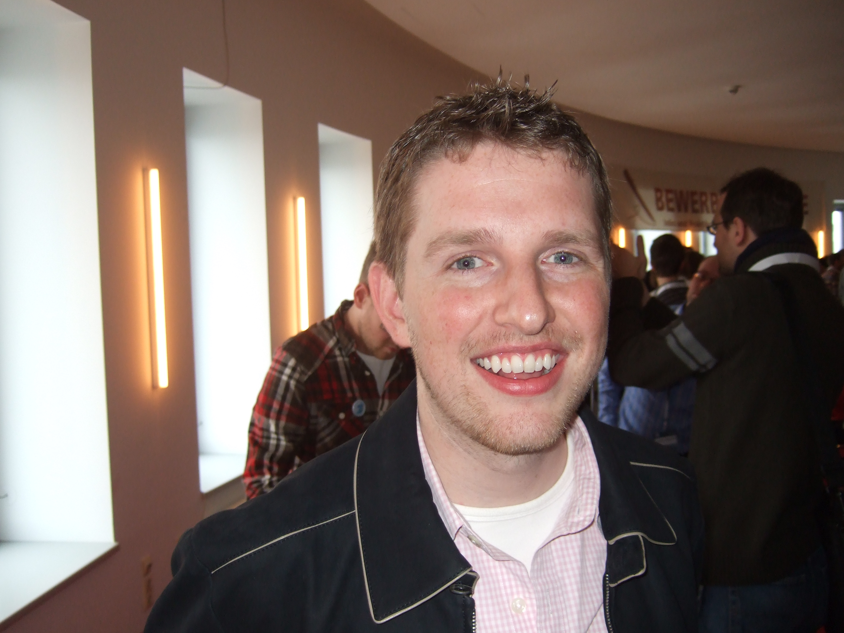 Matt Mullenweg at the WordCamp Jena 2009.